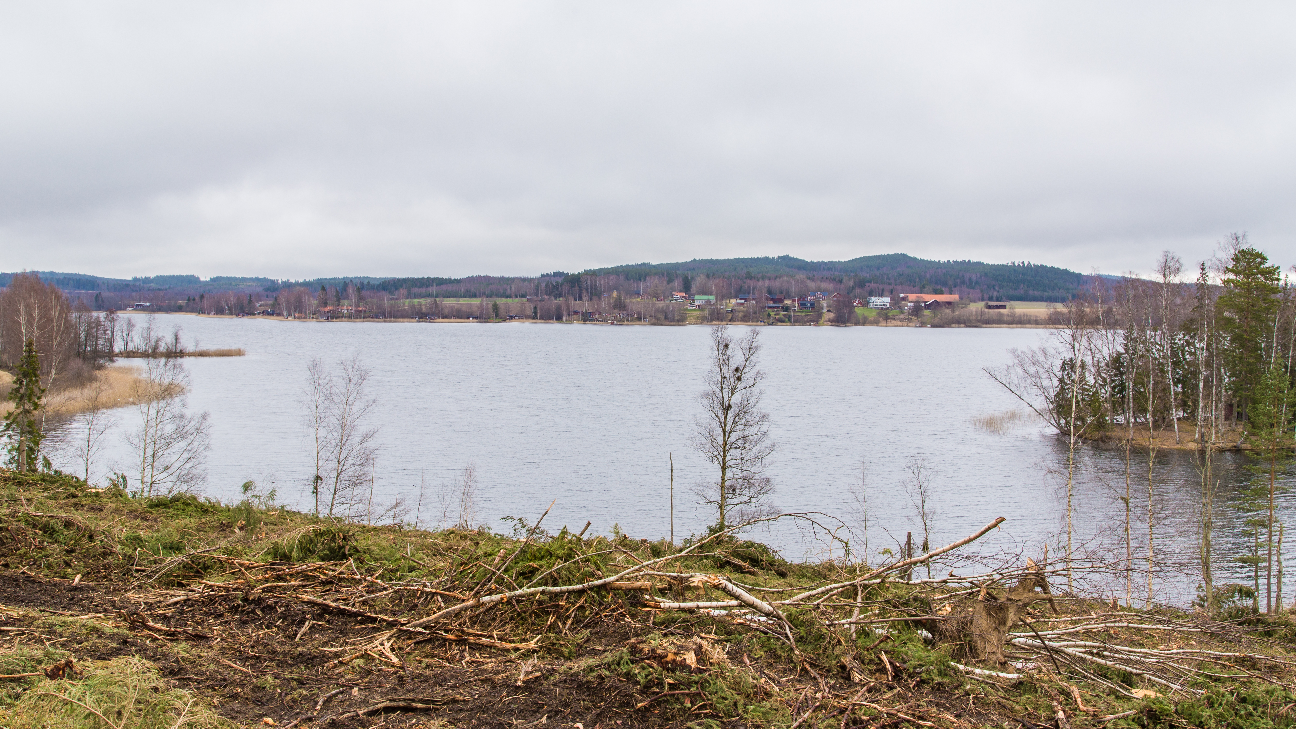 Lake Norra Viggen (Northern Viggen), also Viggen or Stora Viggen (Larger Viggen), Hedemora Municipality, Dalarna County, Sweden.